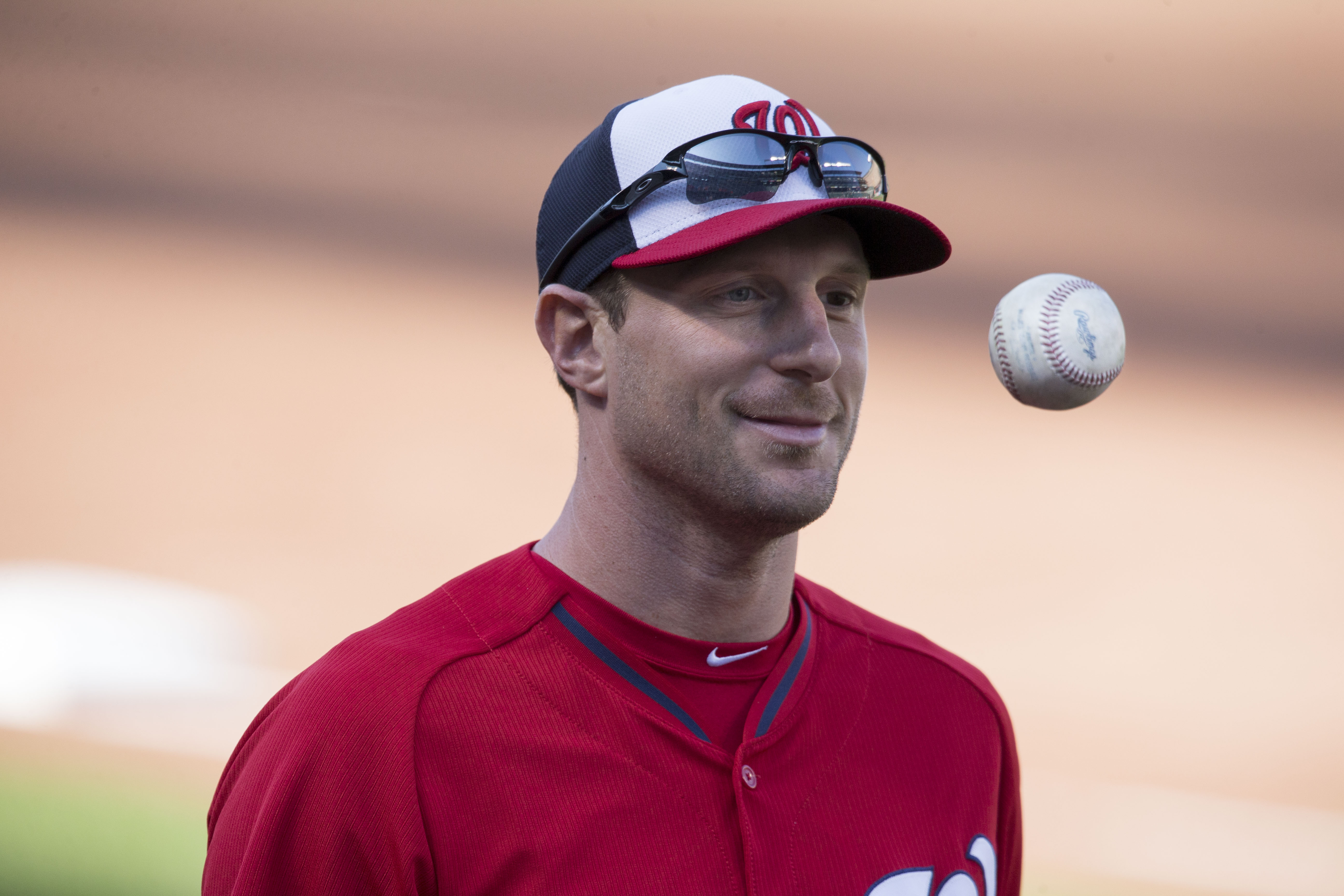 Max Scherzer at Orioles 7/11/15